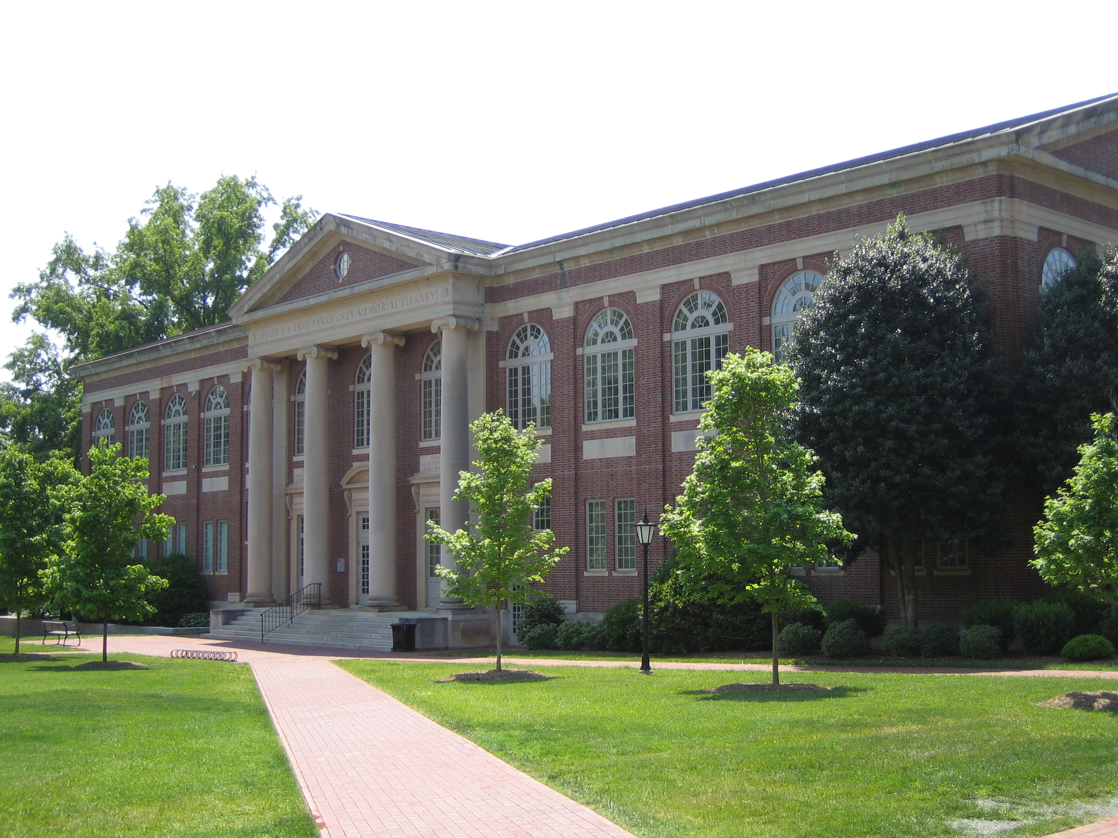 Davidson College's Sloan Music Center, Davidson, NC